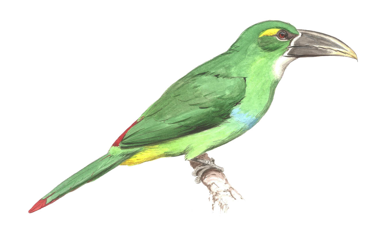 Yellow-browed Toucanet (Aulacorhynchus huallagae) - Watercolor, Romain Risso.